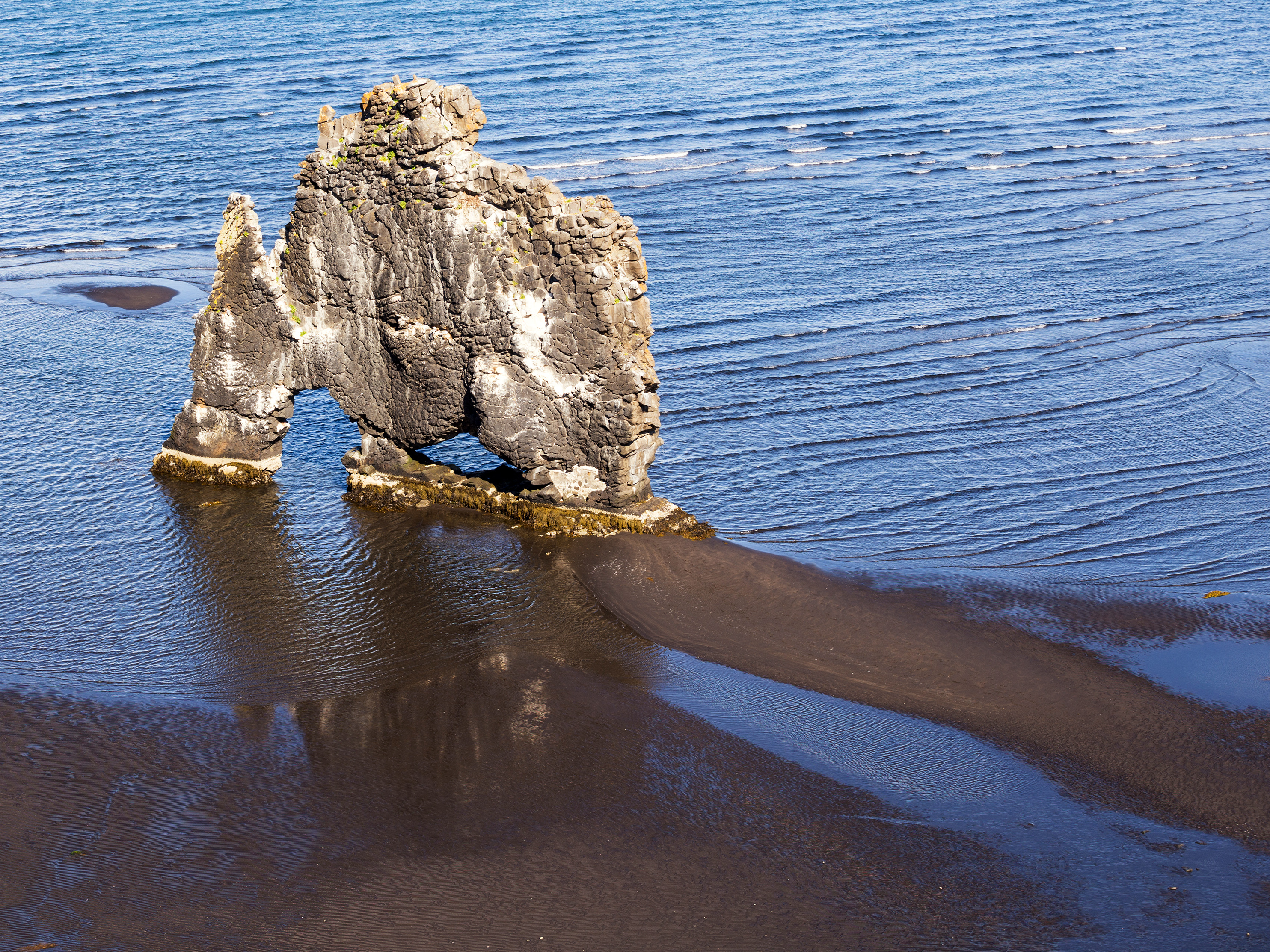 Hvítserkur, basalt stack in northwest Iceland